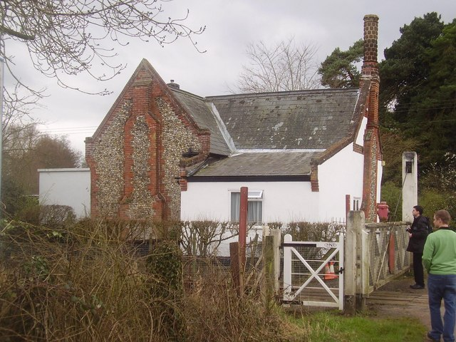 Wymondham Abbey crossing keepers house